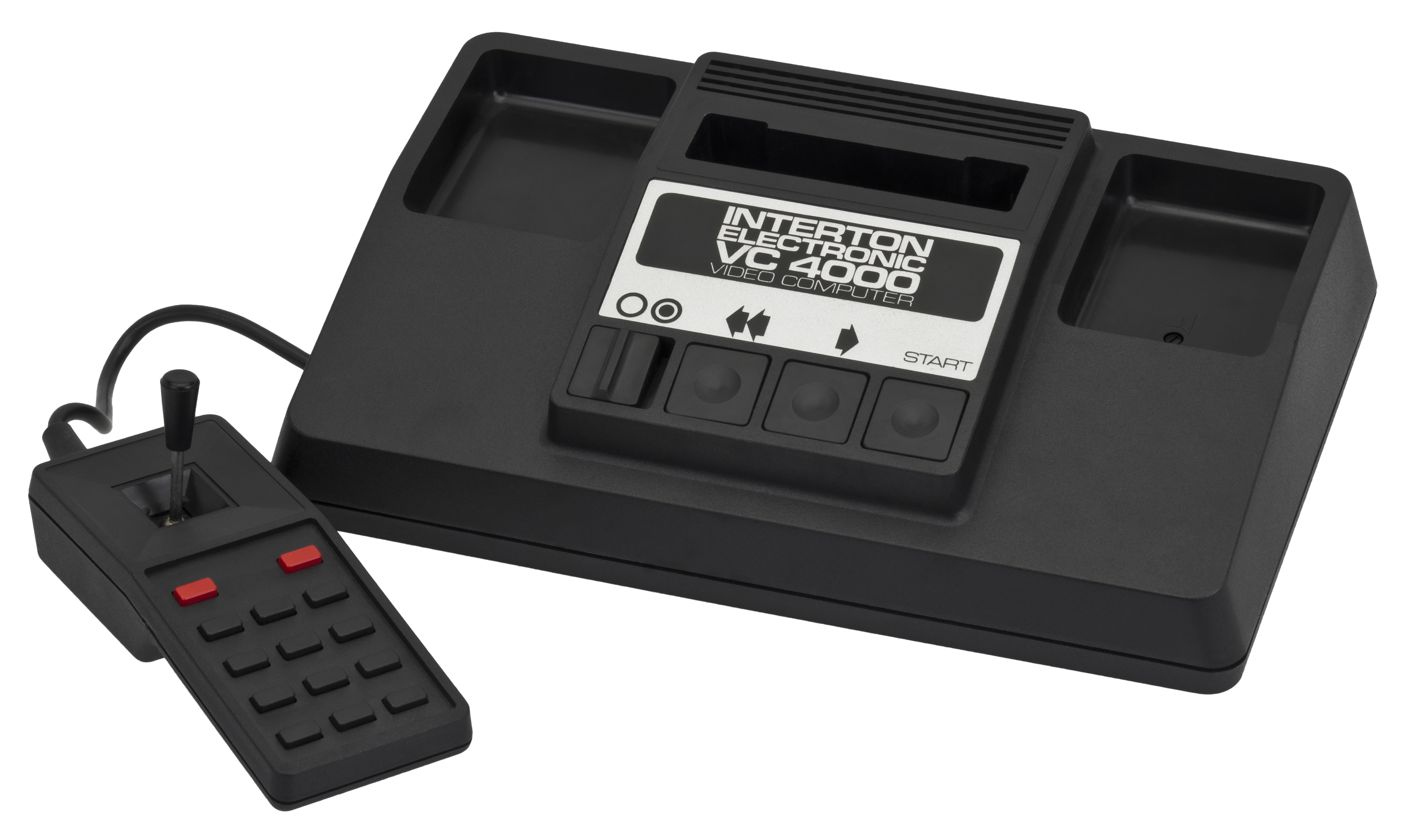 The VC 4000 with controller. A second-generation video game console released in Germany by Interton Electronics.